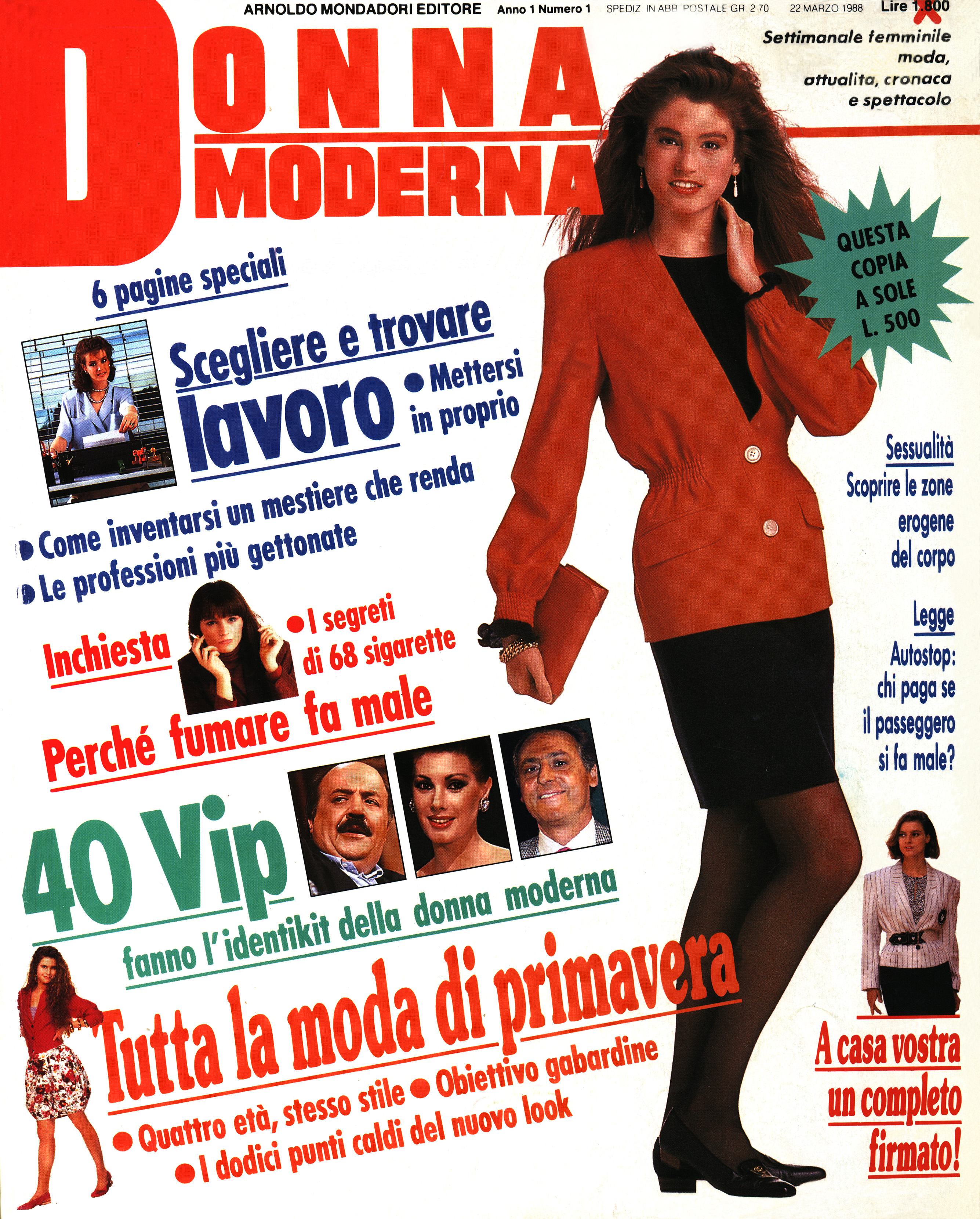 Cover of the 1st issue of the italian magazine "Donna Moderna", May, 22nd, 1988.